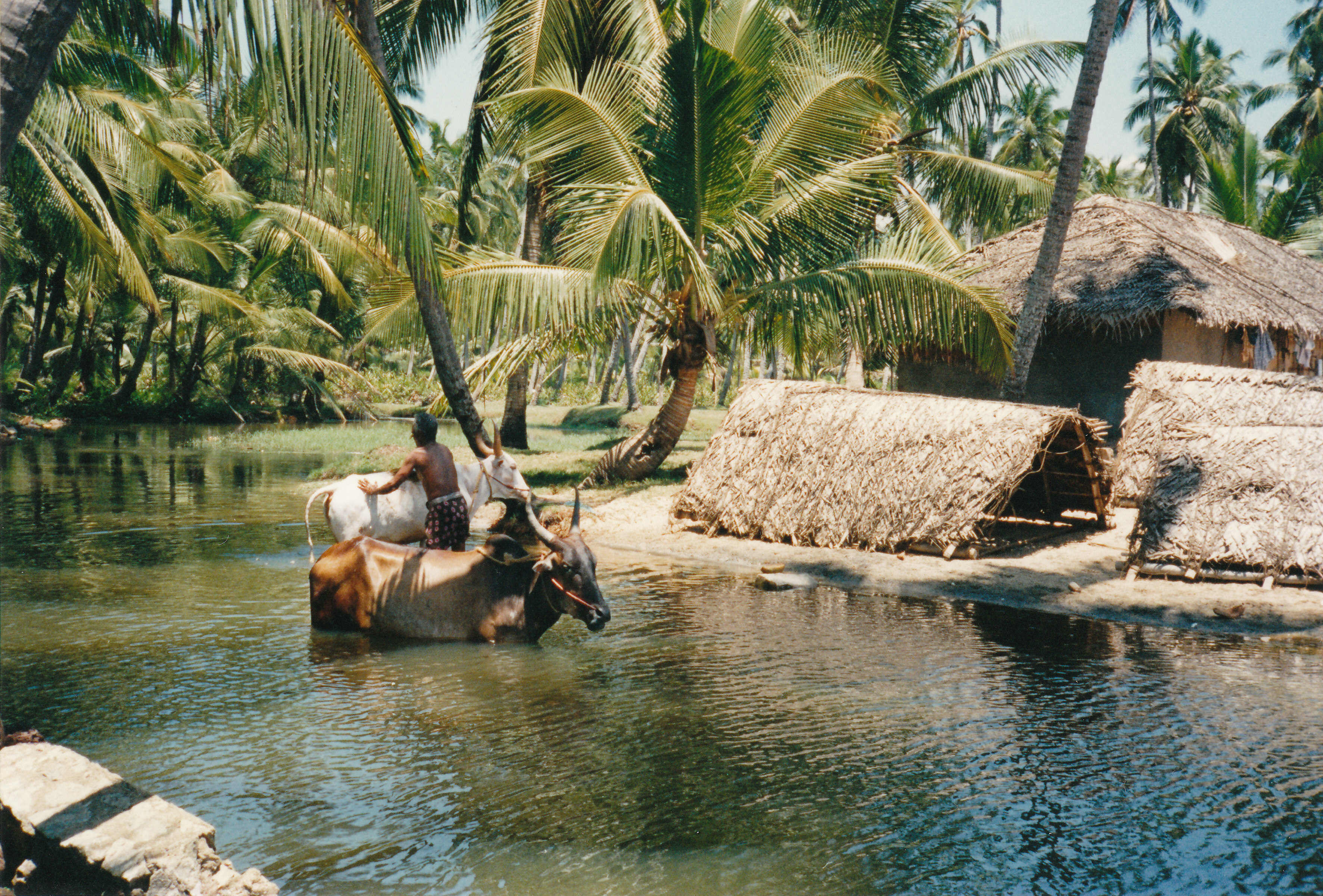 A farmer and his animals after a working day (Kerala-India)